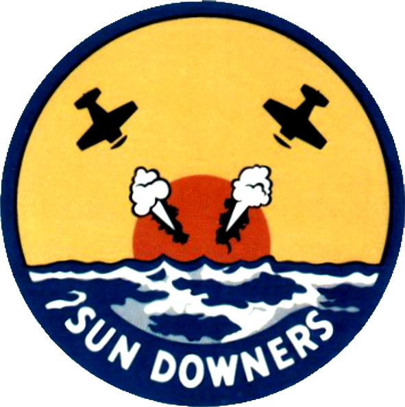 Emblem of the United States Navy Fighter Squadron 111 (VF-111) "Sundowners". It originated from VF-11 "Sundowners" in 1942 and was also adopted by Composite Fighter Squadron 111 (VFC-111) in 2006.